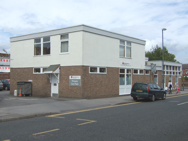 Northallerton - British Red Cross Centre The British Red Cross Centre in Northallerton at the junction of East Road and Zetland Street (seen here from the latter).